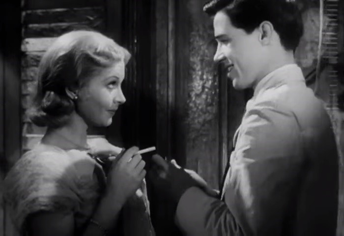 Vivien Leigh & Wright King in A Streetcar Named Desire - trailer (cropped screenshot)